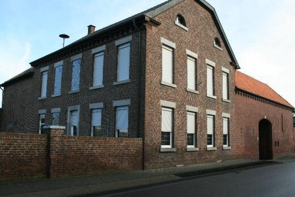 Cultural heritage monument No. 42 in Gangelt